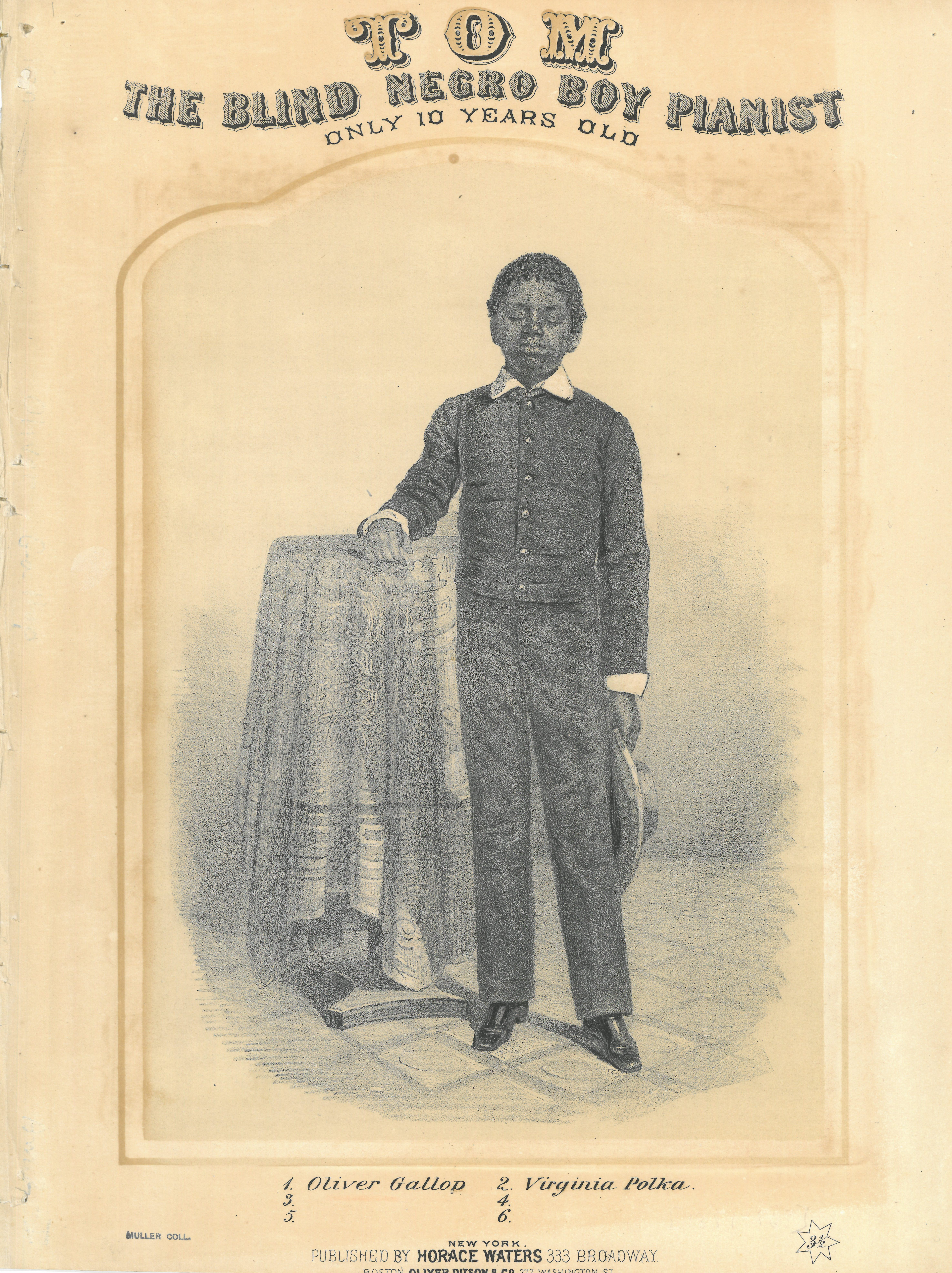 Blind Tom Wiggins, as portrayed on the front cover of the sheet music for his compositions "Oliver Gallop" and "Virginia Polka" (published by Horace Waters). Since Wiggins was (as stated) 10 years old at the time, this sheet music must have been published in 1859.